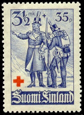 Russian attacked to Sweden-Finland in 1808 and Swedish army lost Finland by spring 1809 and this figure shows officer von Konow and his soldier Bergsten. Postage stamp depicting a Carolean soldier (Finnish:karoliini)